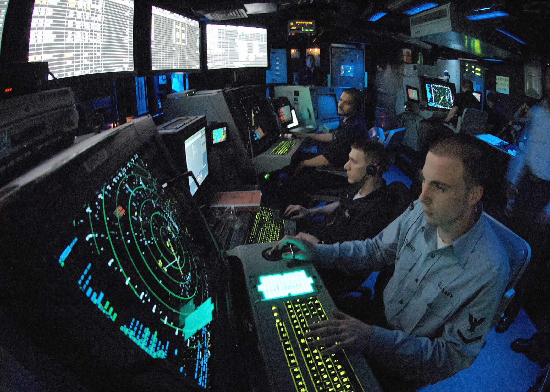 Pacific Ocean (May 5, 2006) - Air Traffic Controller 3rd Class David McKeehe works approach controller in Carrier Air Traffic Control Center (CATTC) aboard the Nimitz-class aircraft carrier USS Abraham Lincoln (CVN 72). Lincoln and Carrier Air Wing Two (CVW-2) are currently underway in the Western Pacific operating area.